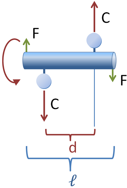 A rotating shaft unbalanced by two attached weights causing a counterclockwise centrifugal couple Cd that must be resisted by a clockwise couple Fℓ exerted by the bearings .